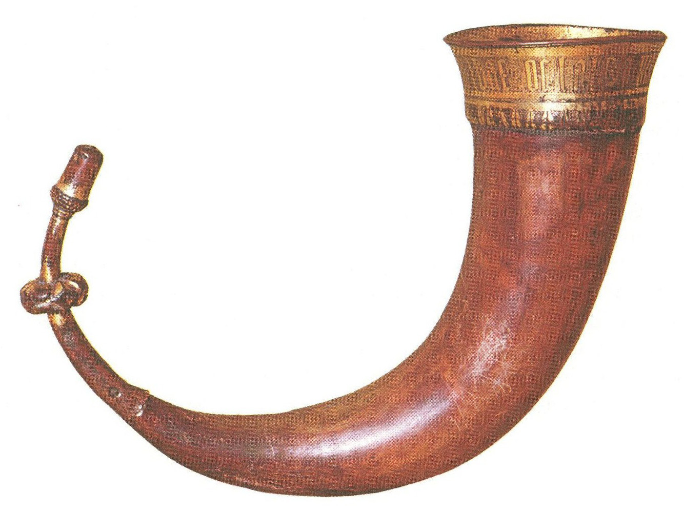 Late Middle Age drinking horn from Yläne homestead in Finland proper. The much later Scandinavian student custom of drinking mead from horns in the Old Norse way spread in the 19th century also to Finland.